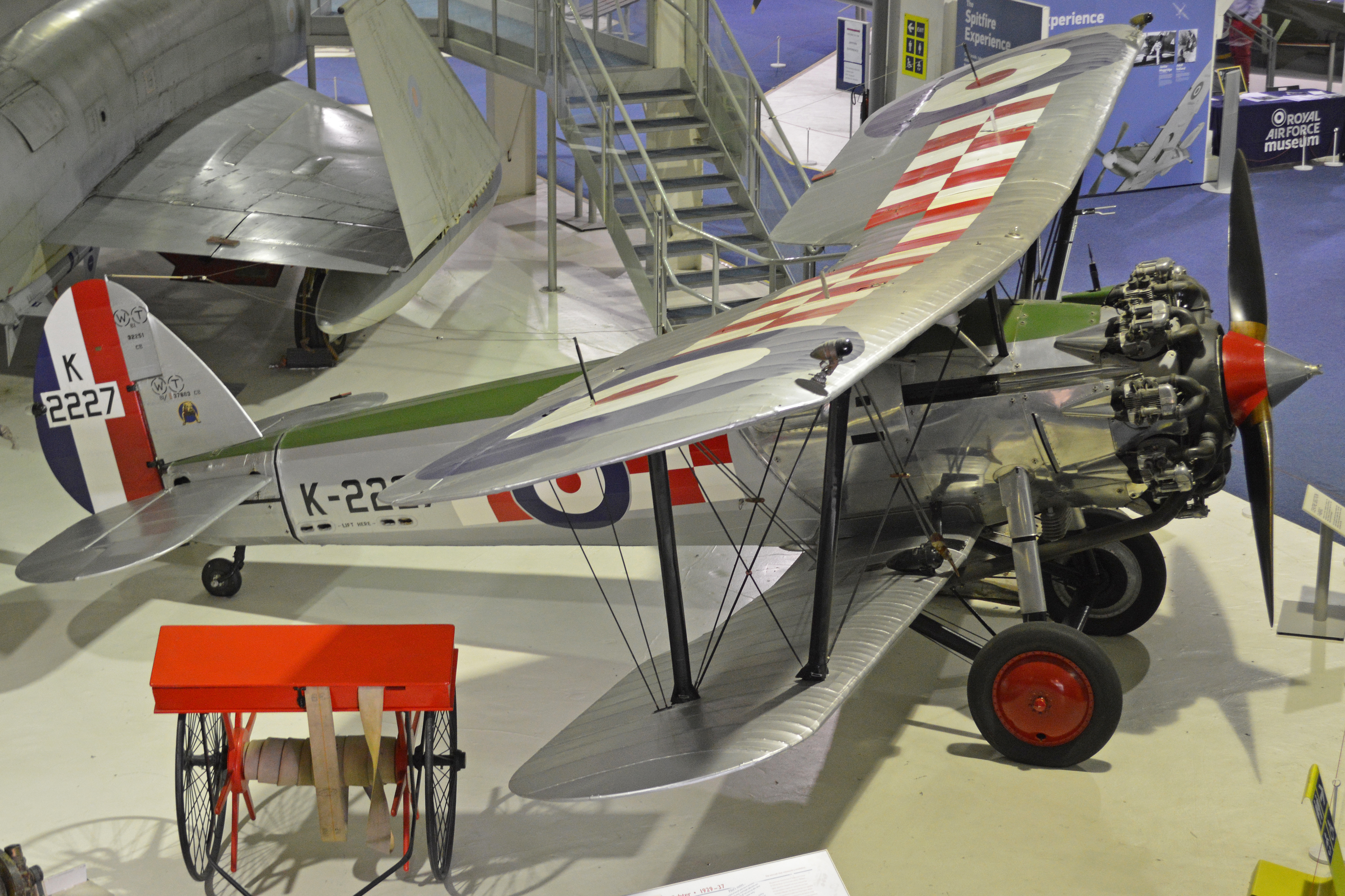 c/n 7446. Built 1930 and registered ‘G-ABBB’ as a company demonstrator. It was also used for some development work, and was eventually grounded in 1936. In 1938 it was gifted to the Science Museum and in early 1939 went on display at South Kensington, London. During WW2 it was removed for safety (to avoid bomb damage) and was stored. Then, in 1955, it was used for static scenes in the ‘Reach for the Sky’ film, marked falsely as ‘K2496’. A restoration to fly was commenced in 1957, with the first flight being in June 1961. At this time it was painted in 56sqn markings as ‘K2227’. It then made several air display appearances over the next three years. On 13th September 1964 it crashed following an engine failure at low level during the Farnborough SBAC show. The pilot escaped with minor injuries, but the aeroplane was completely wrecked. Luckily there was no fire. The accident was investigated by the Accident Investigation Branch (who are conveniently based at Farnborough), after which the remains were dumped behind the AIB hangar. Various parts were salvaged and the remains became very widely spread. In 1992 the RAF Museum gathered all available Bulldog parts together and in 1994 SkySport won the contract for rebuilding the airframe for static display. More original parts were found, and eventually the only major section which had to be entirely new-build was the rear fuselage. Overall the aeroplane is believed to be about 50% original. It was returned to the 56sqn markings it carried when it last flew, again carrying the serial ‘K2227’. The stunning completed aeroplane went on display at Hendon in March 1999, in the Historic Main Hangars where it remains today. RAF Museum, Hendon, London, UK. 28th May 2016